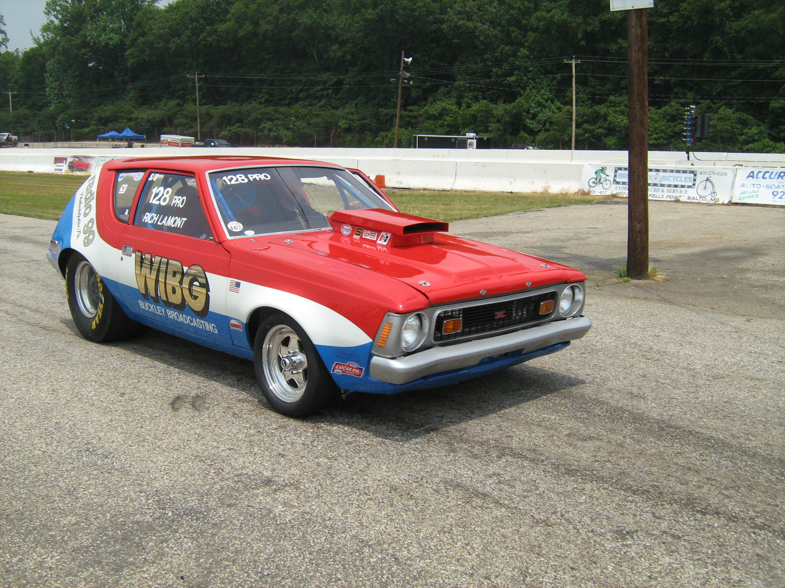 The radio 99 WIBG Pro-Stock Gremlin returning from a run down the drag strip. This customized 1972 AMC Gremlin is a historic professional dragster that was driven by Rich LaMont and sponsored by radio station 99 WIBG broadcasting in Philadelphia, PA. This car RUNS the quarter-mile at around 8.75 seconds achieving over 150 mph (240 kph). This Pro-Stock racer is restored, period correct, and raced regularly. Photograph taken at Potomac Ramblers automobile club's 2011 "All AMC Drag Race Day" held at the Capitol Raceway, a NHRA sanctioned, 1/4 mile, asphalt and concrete, drag strip located in Crofton, Maryland.